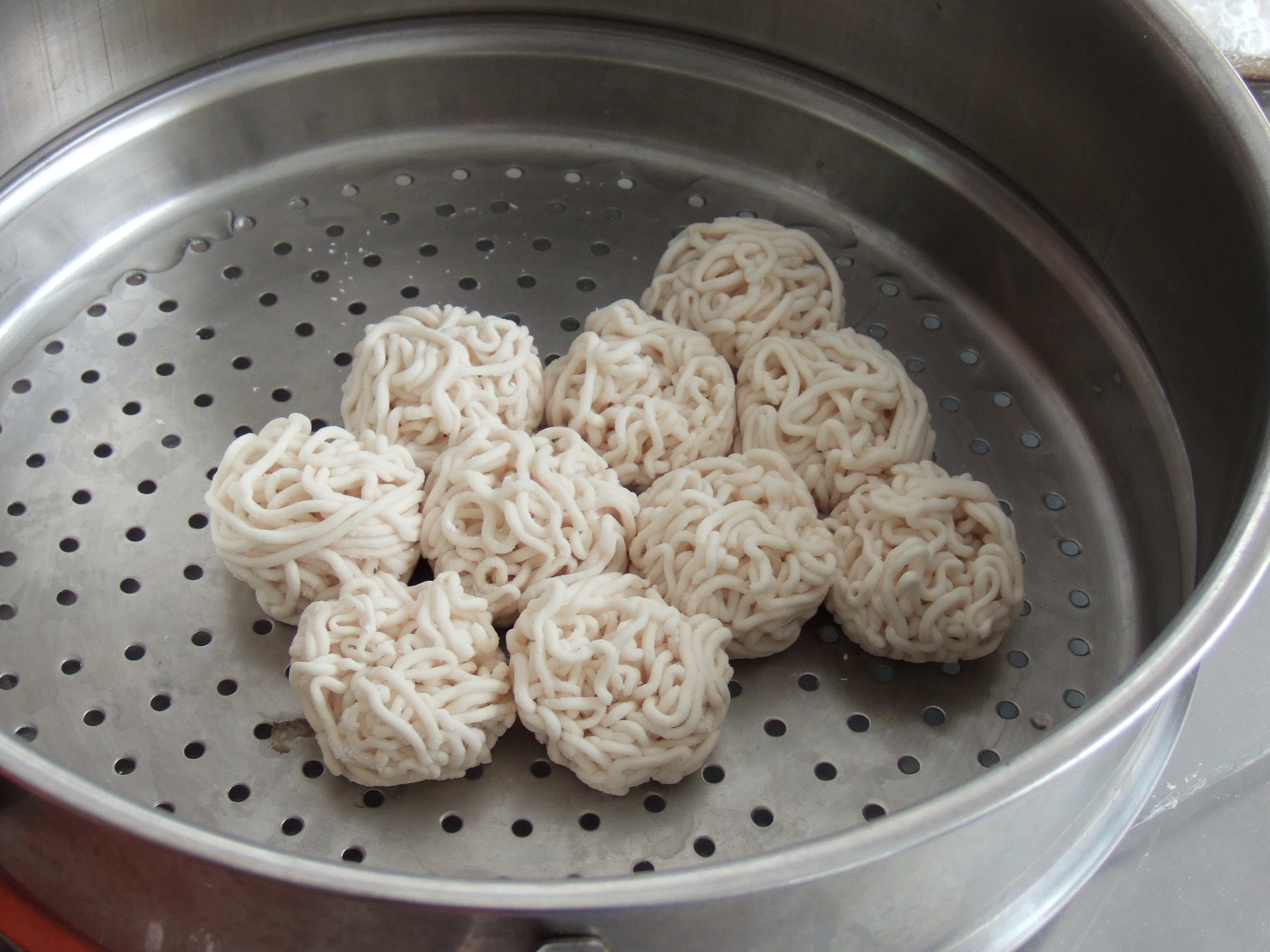 Pempek keriting ready to be steamed, Indonesian fish cake, Jakarta, Indonesia